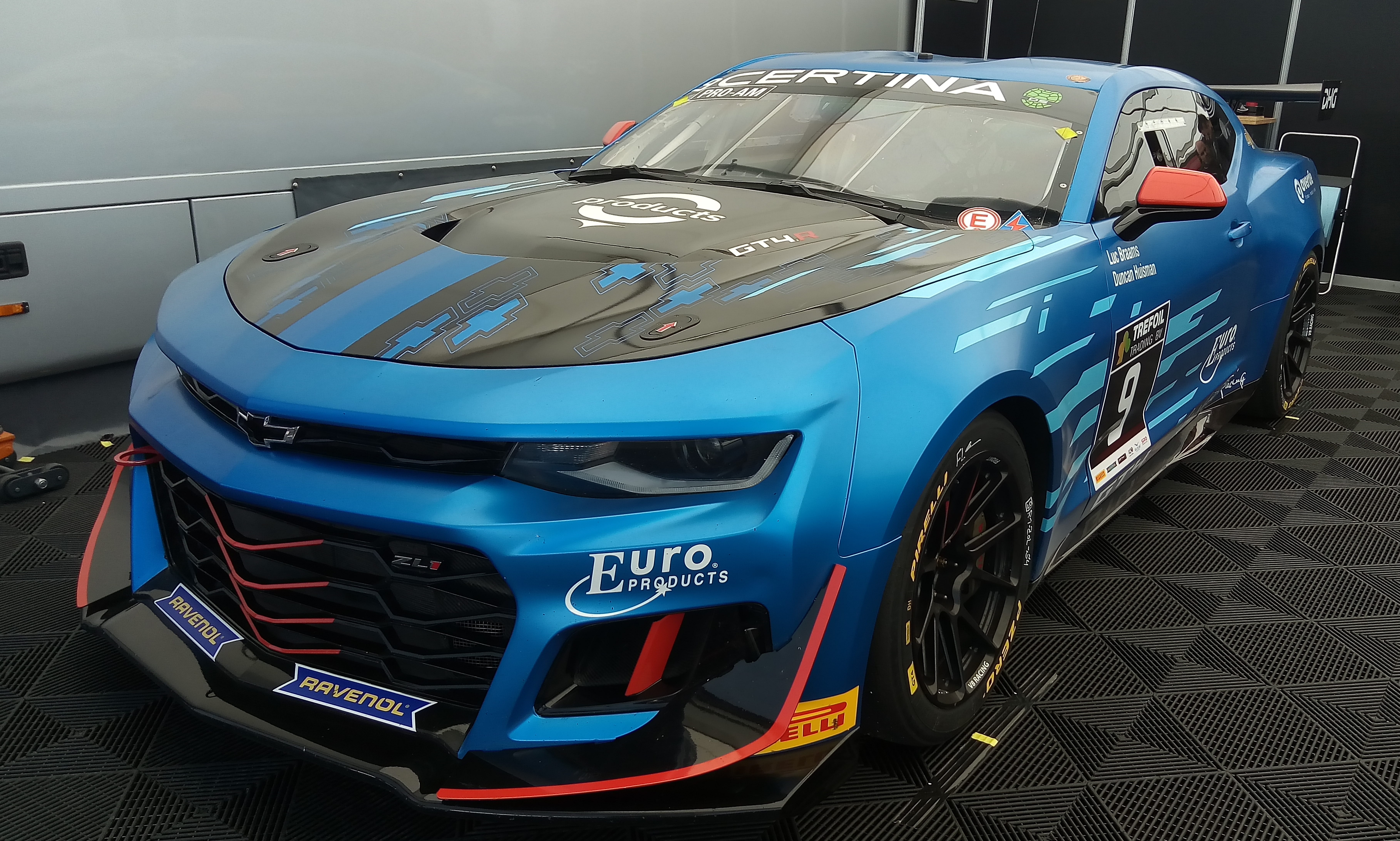 The 2018 Chevrolet Camaro GT4.R in the Circuit Zolder paddock. The car was raced by Luc Braams and Duncan Huisman.